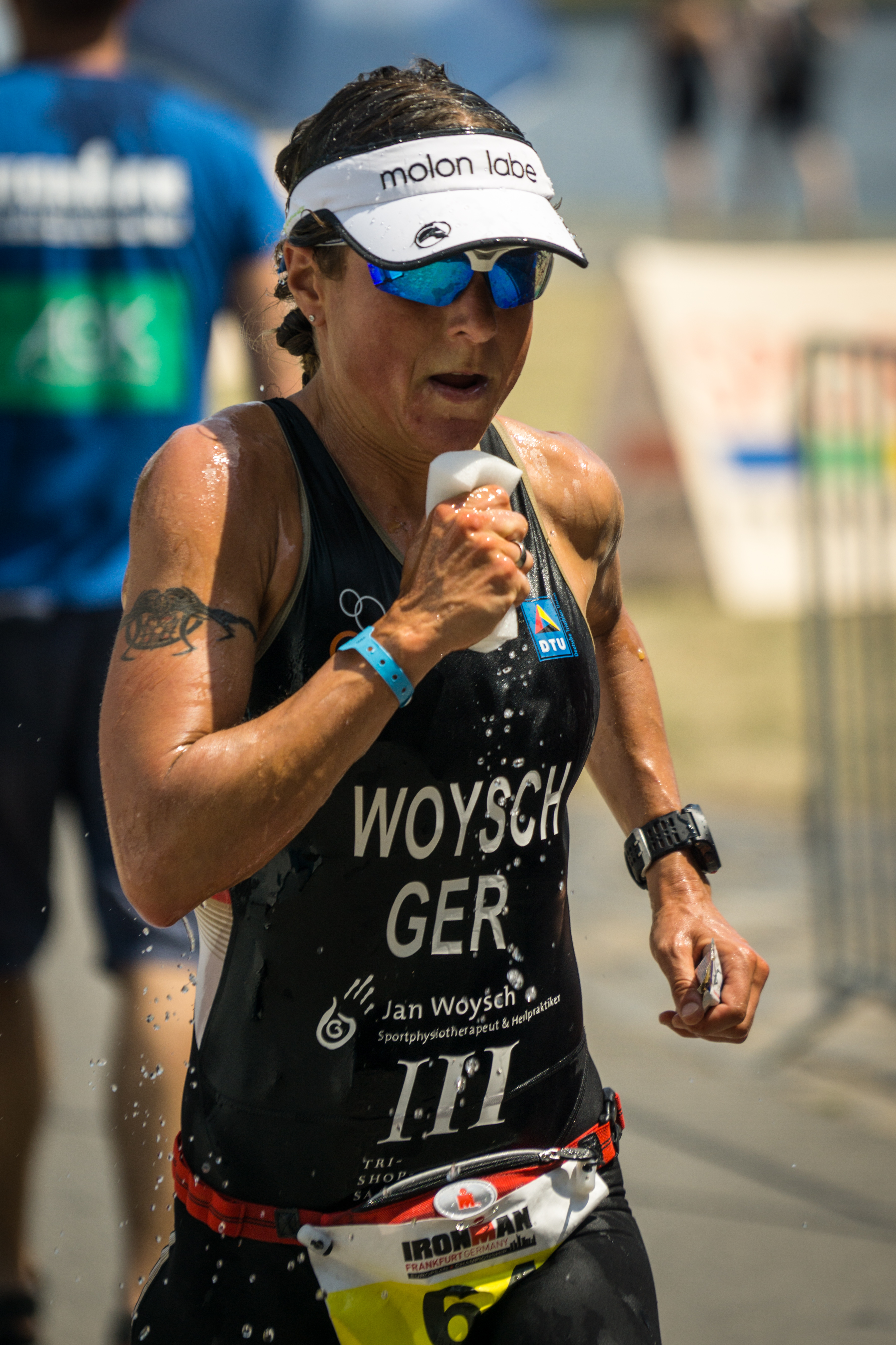 Nicole Woysch at the 2015 Ironman European Championship in Frankfurt am Main.